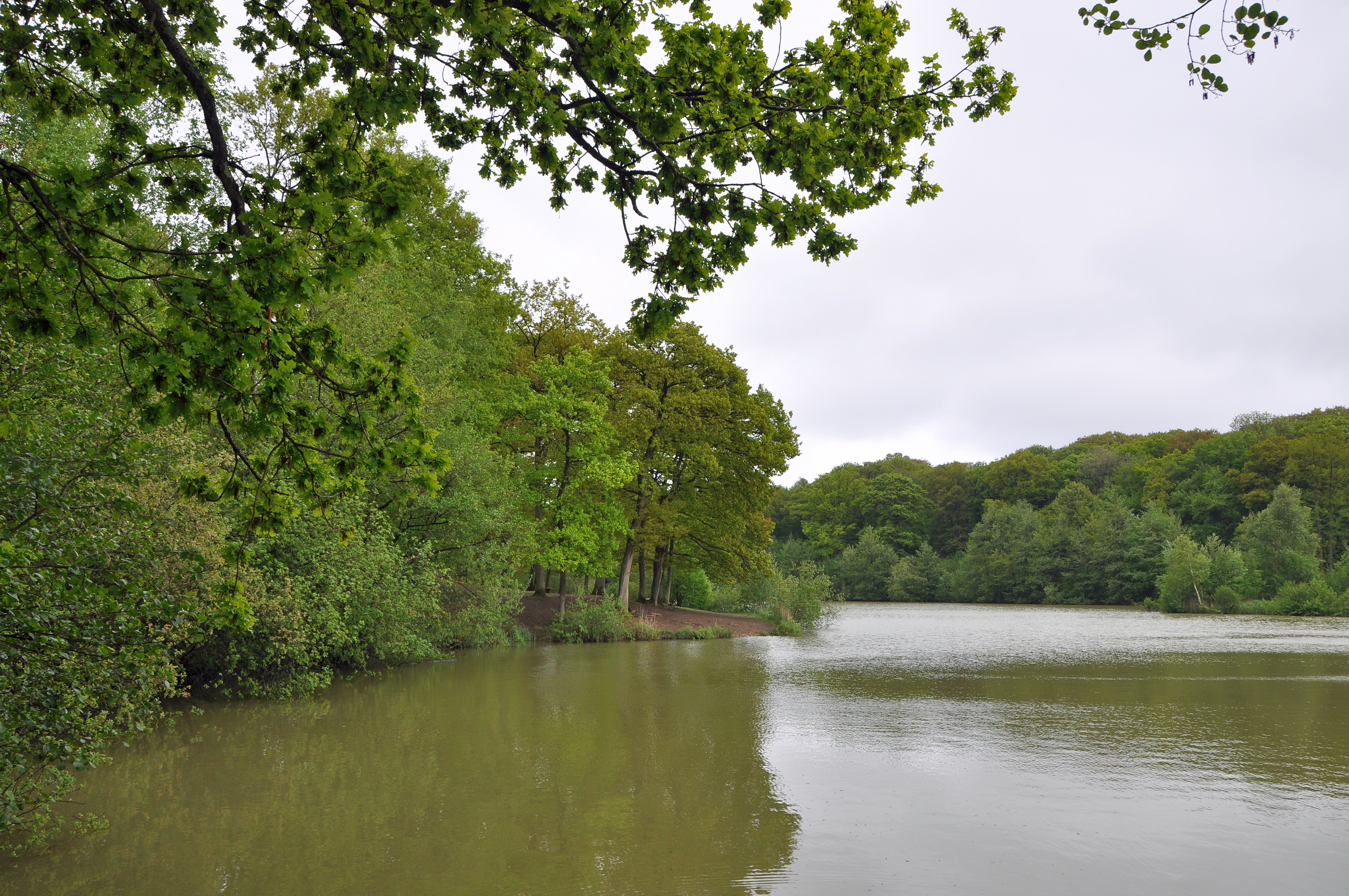 Arques (département du Pas-de-Calais, France): the pond of Harchelles in the forest of Clairmarais